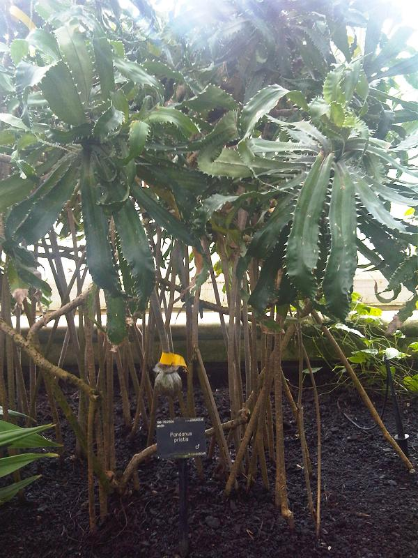 Pandanus pristis at Kew Gardens, England.